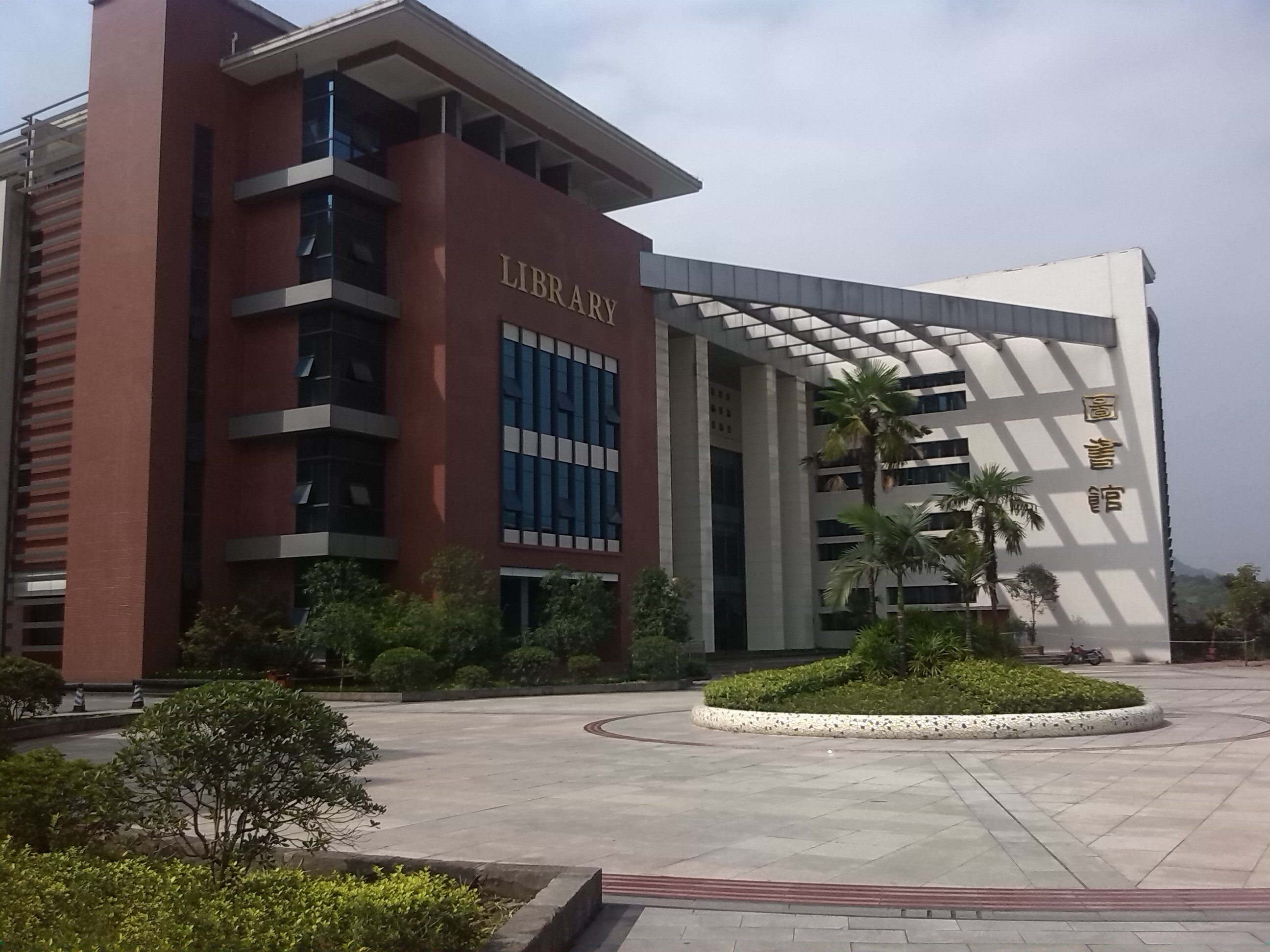 Library of the Sichuan International Studies University, Chongqing, China.